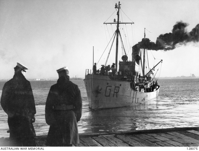 The auxiliary minesweeper HMAS Goorangai coming in to berth at a wharf in Port Philip, Victoria, while two sailors look on. AWM caption: "AUXILIARY MINESWEEPER, H.M.A.S. "GOORANGAI", WHICH COLLIDED WITH THE COASTAL LINER "DUNTROON", IN PORT PHILLIP BAY, 1940-11-20, AND FOUNDERED IMMEDIATELY WITH THE LOSS OF HER FULL COMPLEMENT OF TWENTY-FOUR OFFICERS AND MEN."